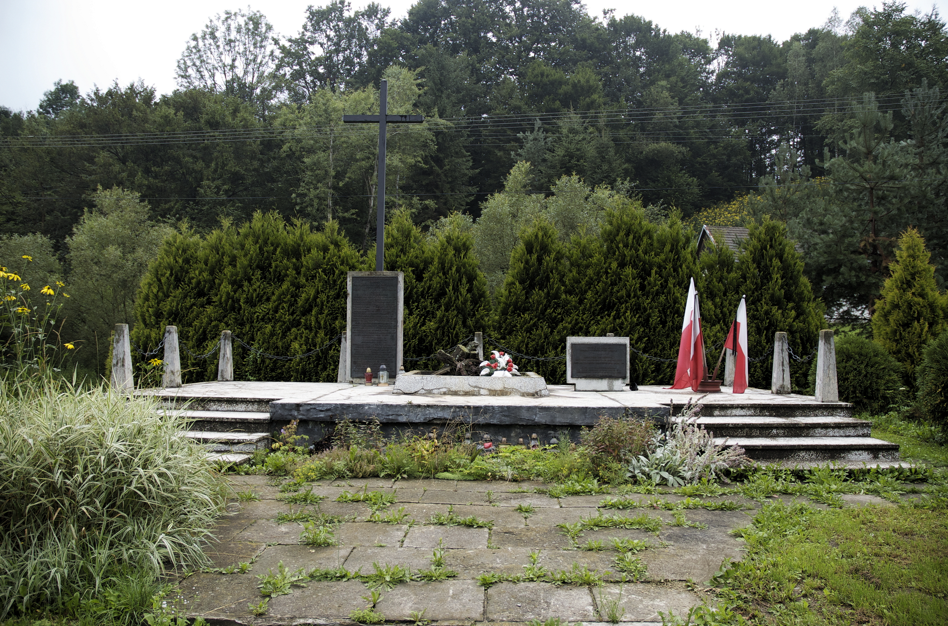 Borownica (Poland), monument